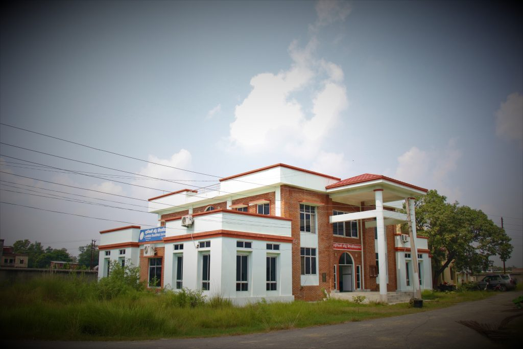 Newly constructed office of Lumbini Buddhist University